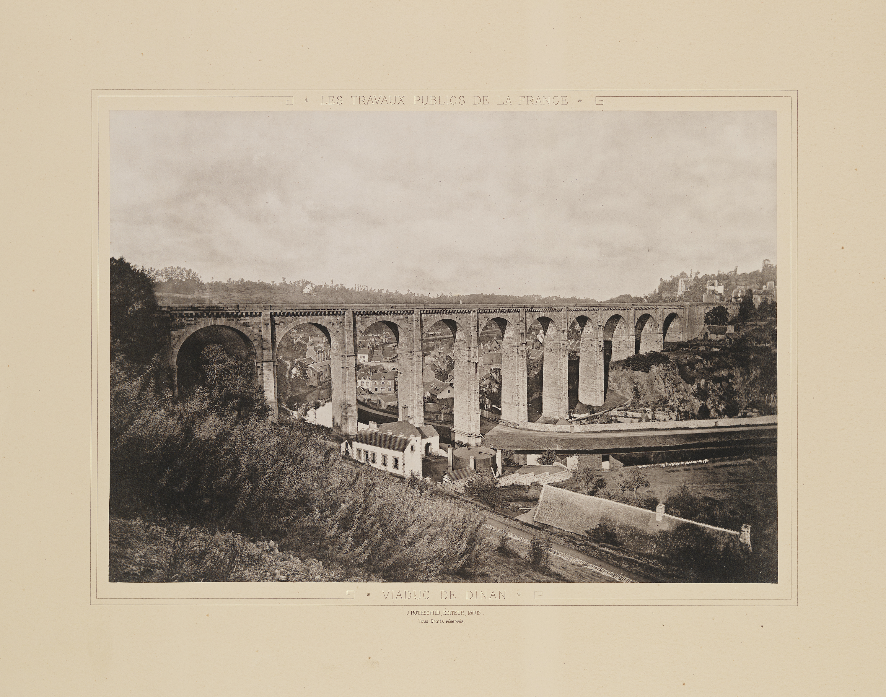 Title: Viaduc de Dinan Alternative Title: Dinan Viaduct Creator: Duclos, Jules Date: 1883 Part Of: Les Travaux Publics de la France, Tome Premier: Routes et Ponts Place: Dinan, Brittany, France Physical Description: 1 photographic print: collotype; 26 x 35 cm on 40 x 56 cm mount File: vault_folio_2_ta71_a4_1883_1_21_opt.jpg Rights: Please cite Southern Methodist University, Central University Libraries, DeGolyer Library when using this image file. A high-quality version of this file may be obtained for a fee by contacting . For more information, see